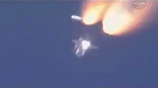 Launch of STS-124 - SRB separation.